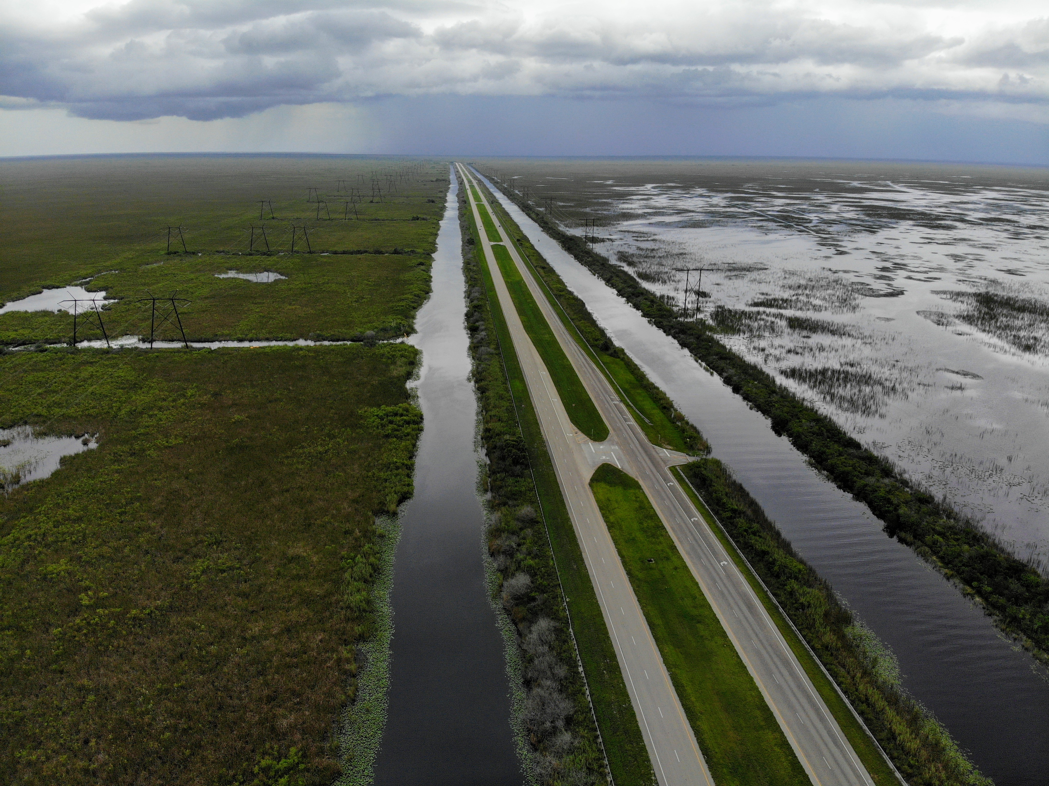 An aerial shot of North US-Route 27 in the Everglades of Florida. An approaching storm coming from the North is also shown.